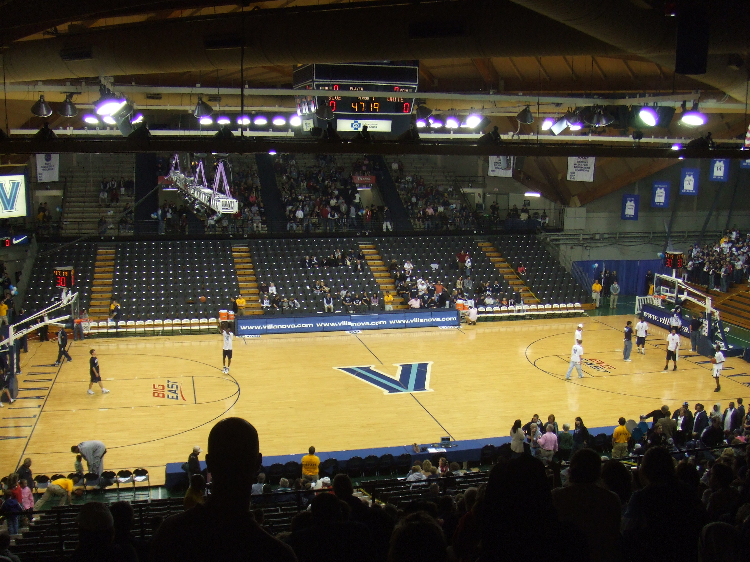 Picture Of Inside Of The Pavilion, Located on the Villanova Campus. I took the picture myself Novanut35 22:50, 6 August 2007 (UTC)